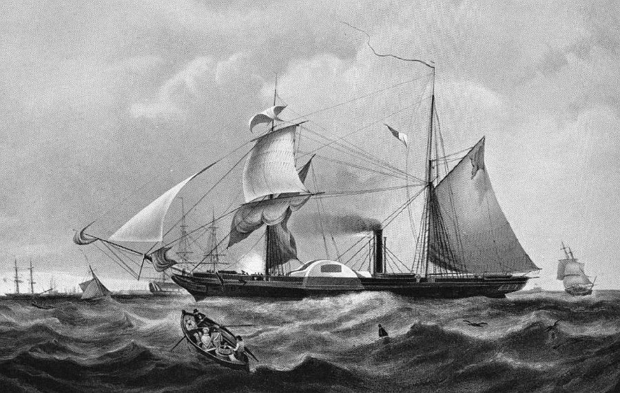 HMS Cyclops a steam paddle wheel frigate launched in 1839